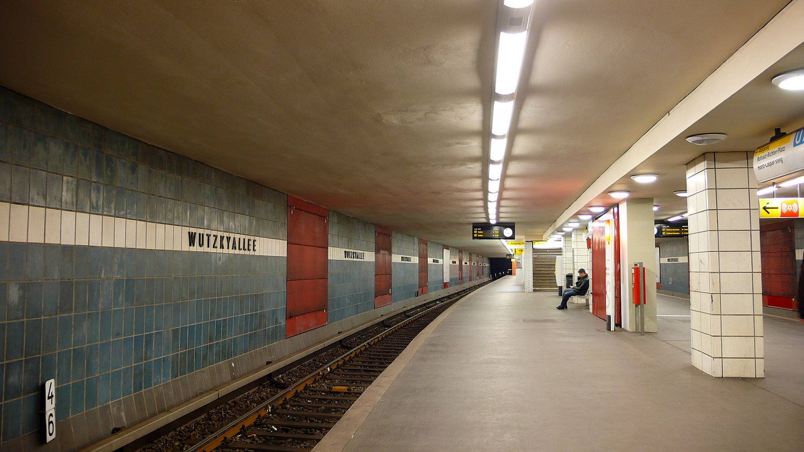 Wutzkyallee